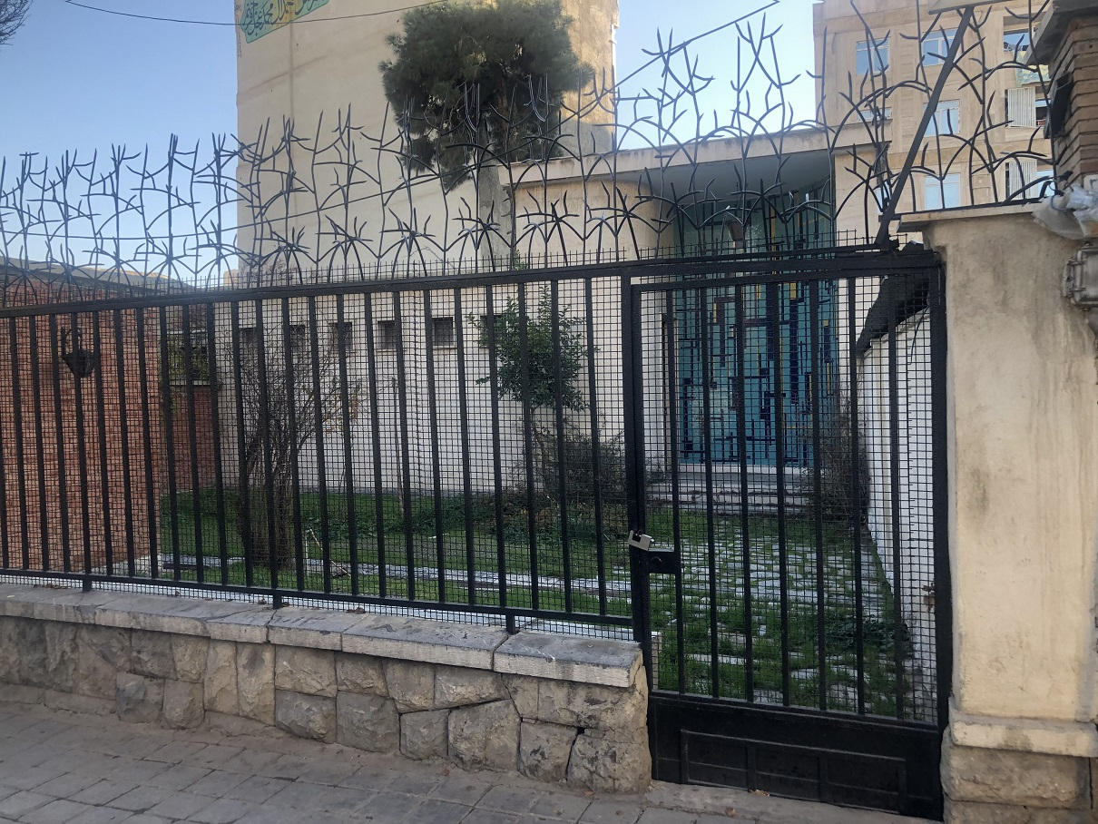 Imamzadeh Abdullah